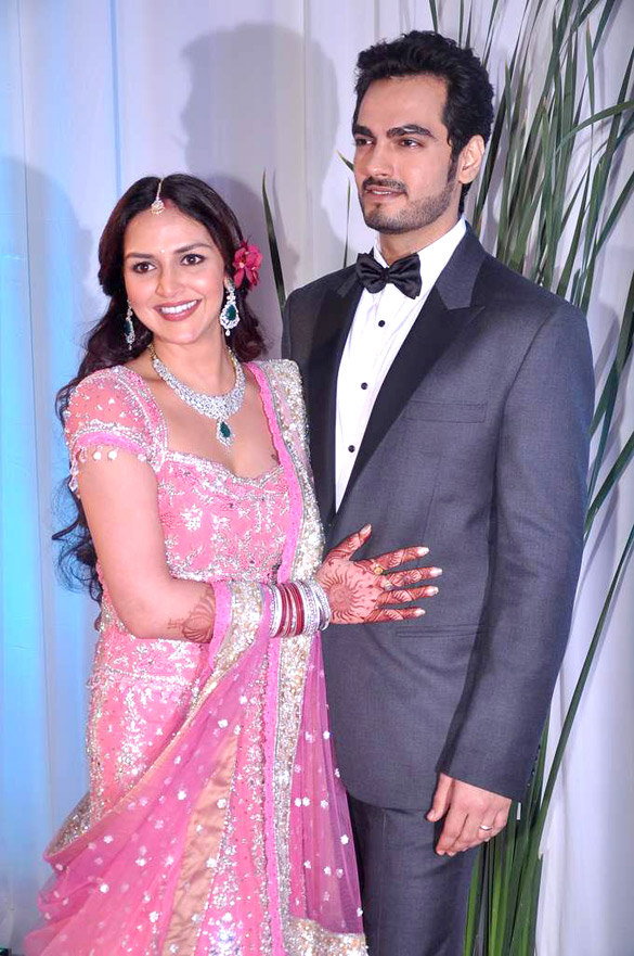 Esha Deol, Bharat Takhtani at their wedding reception